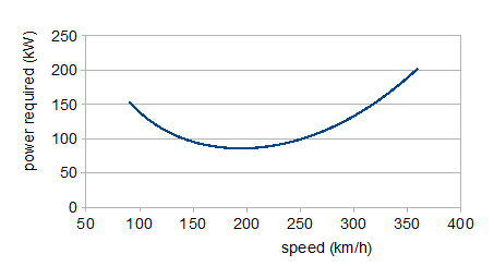 Plot of power required by a light aircraft of mass 000 kg, wing area 15 sq m at sea level (atmospheric density 1.2 kg/ cu m) and propeller efficiency, with drag polar drag polar CD = 0.017 + 0.075.(CL - 0.1)^2